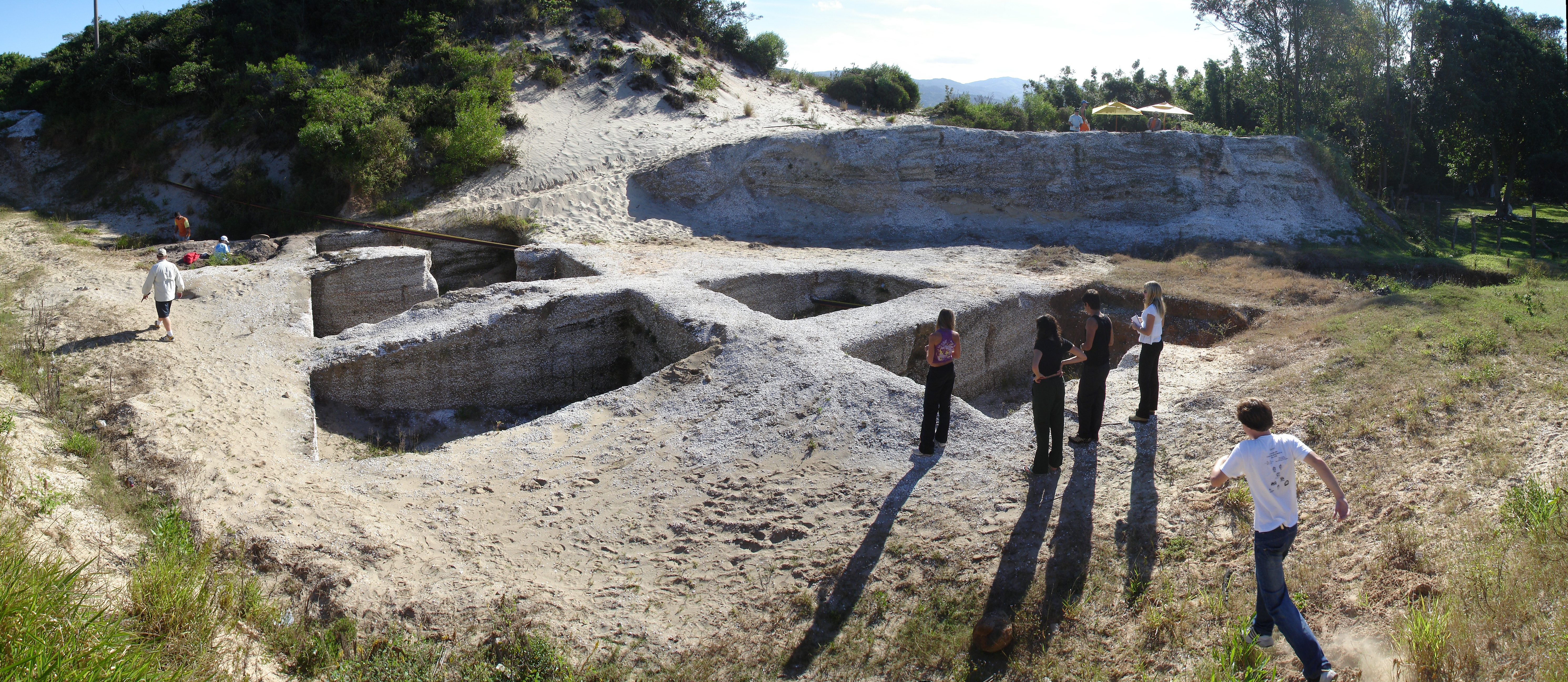 Shell midden in front of the brazilian highway BR 101, located in the municipality of Laguna, southern Brazil, at year 2009. Geographic coordinates on Google Earth: 28°20'39.63S 48°44'3.40W